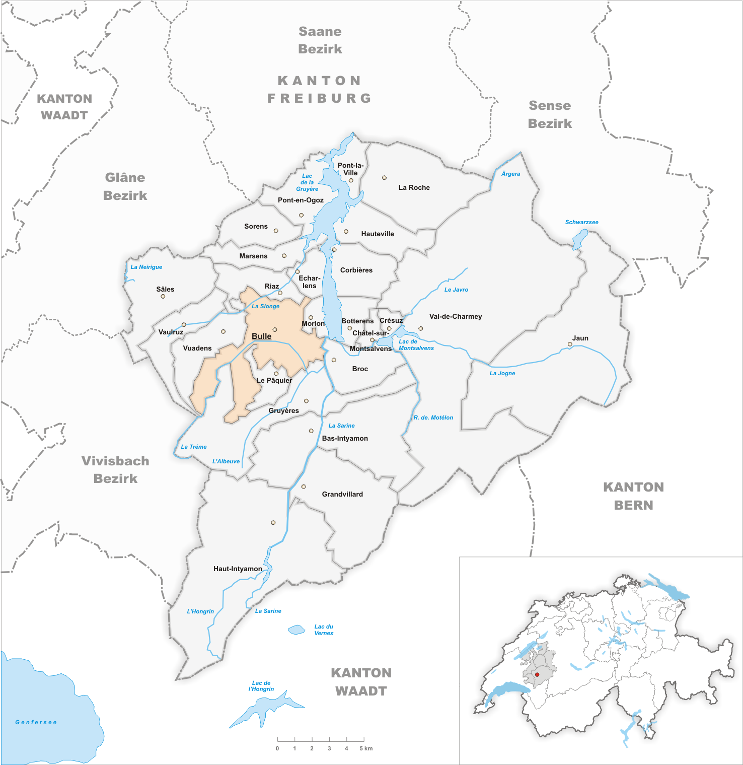 Municipality Bulle